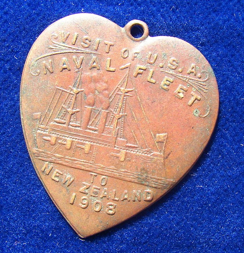 Medallion with loop suspension 28 x 31 mm. New Zealand visit Auckland, 9 August 1908 to15 August 1908. United States Navy battleship r. 2 lines above: "VISIT OF U.S.A. NAVAL FLEET", 3 lines below: "TO NEW ZEALAND 1908"/ 2 lines: "SCHWAAB S. & S. MILWAUKEE". Morel 1908/7 var. Medallists: Schwaab Stamp & Seal Co. in Milwaukee, USA Condition: VERY FINE+, no hidden faults.